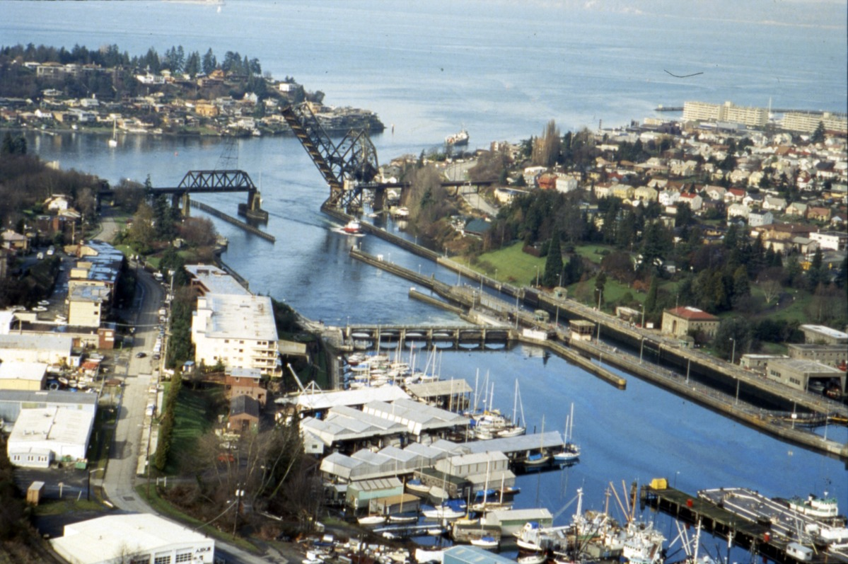 Aerial photograph of Ballard Locks (Hiram M. Chittenden Locks) and Shilshole Bay, Seattle, Washington, U.S., 1990.